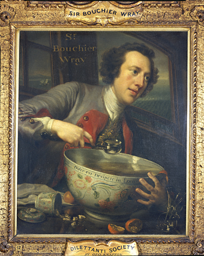 1744 portrait of Sir Bourchier Wrey, 6th Baronet (c. 1715-1784), depicted on a ship at sea serving from a punch bowl, the rim of which is inscribed from Horace, IV Odes, xii, closing line: Dulce est Desipere in Loco ("It is sweet at fitting time to act foolishly"). 1744 portrait by George Knapton (1698-1778) produced for the Society of Dilettanti. Getty Center, Brentwood, Los Angeles